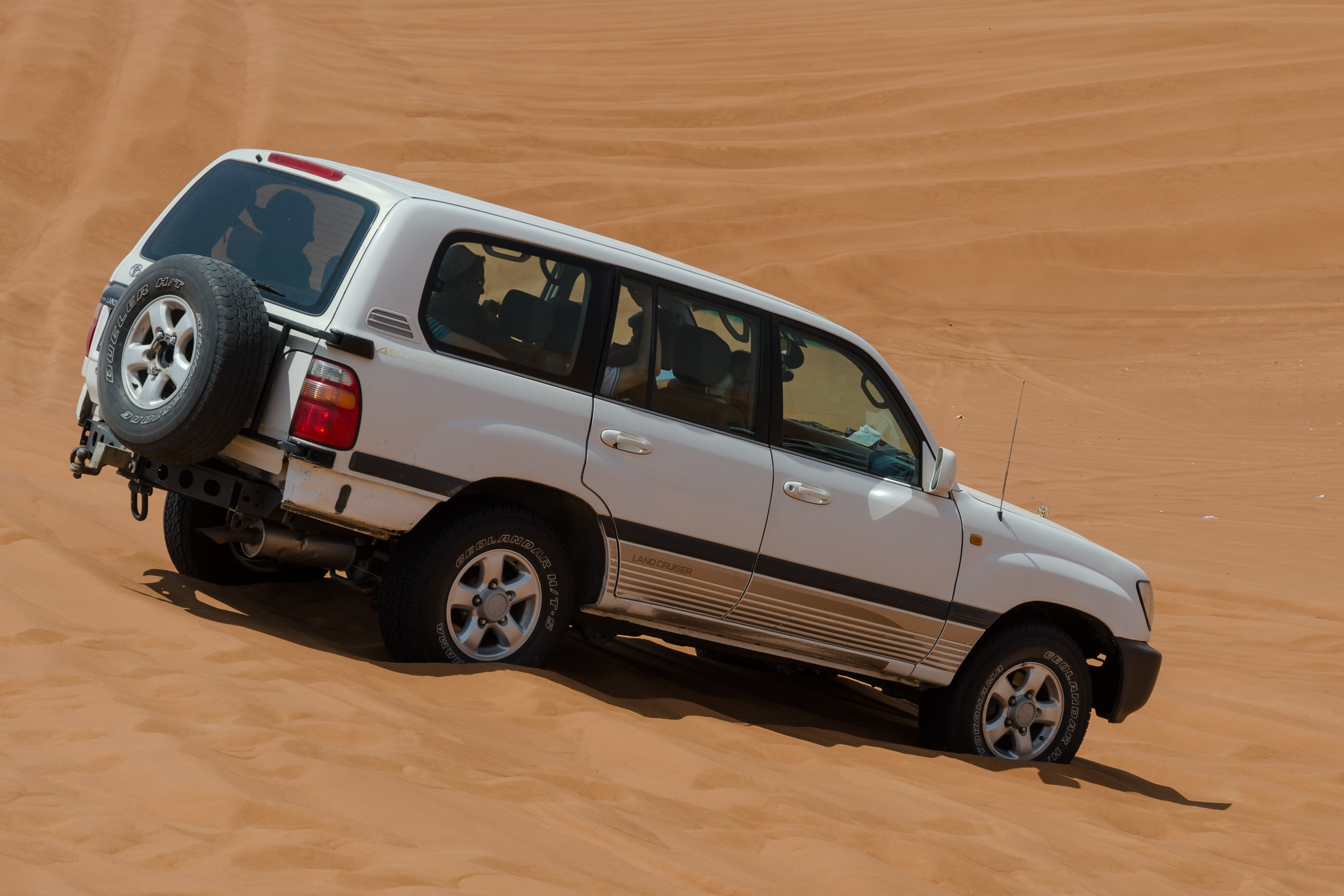 A 100-Series Toyota Land Cruiser in the desert of the UAE